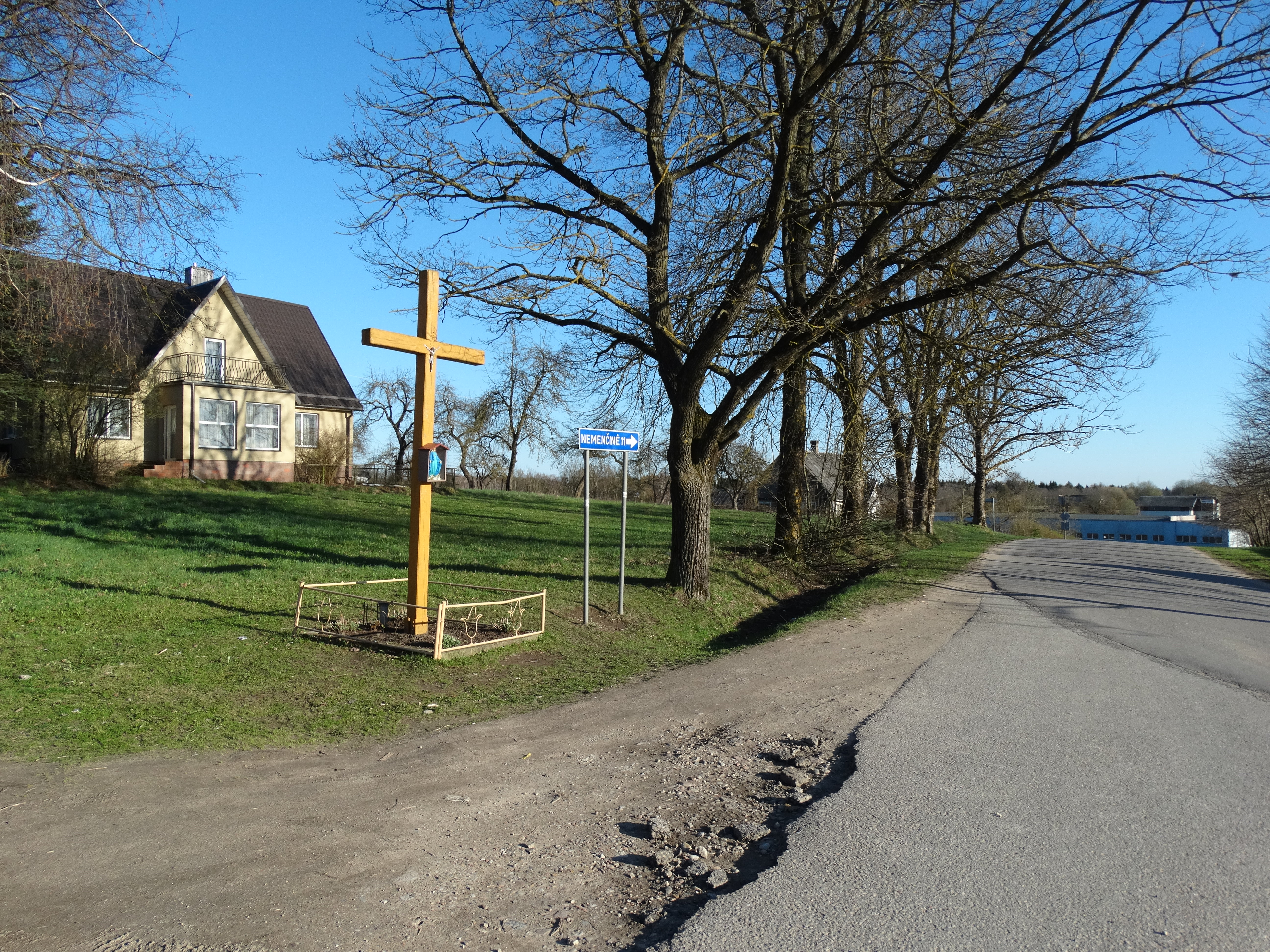 Eitminiškės, Vilnius district, Lithuania